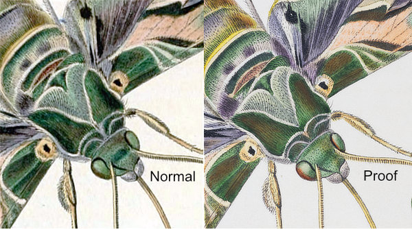 A visual comparison between a proof copy and a typical, run-of-the-mill impression of Plate 626 (Rose-bay Sphinx) from British Entomology by John Curtis. This clearly shows the differences in fine detail and colouring.